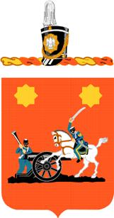 2nd Cavalry Regiment Coat of Arms